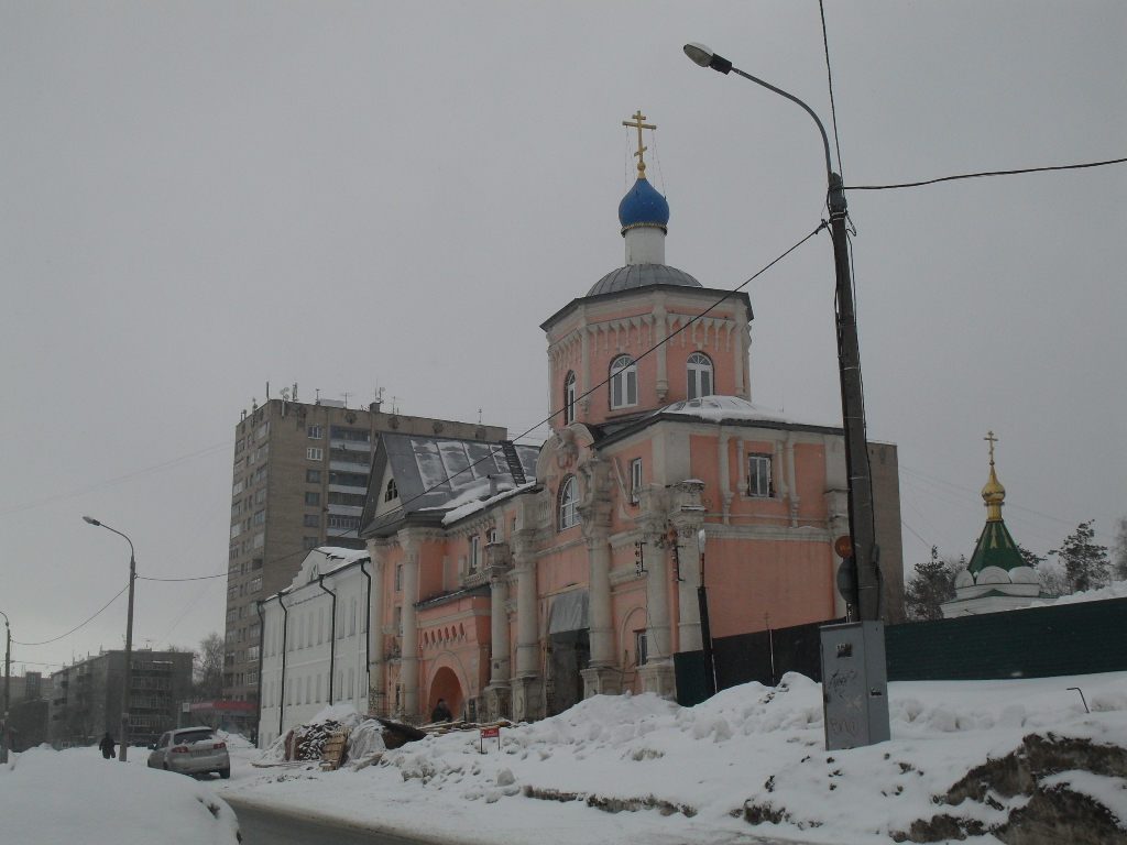 Kizichesky Monastery, Kazan